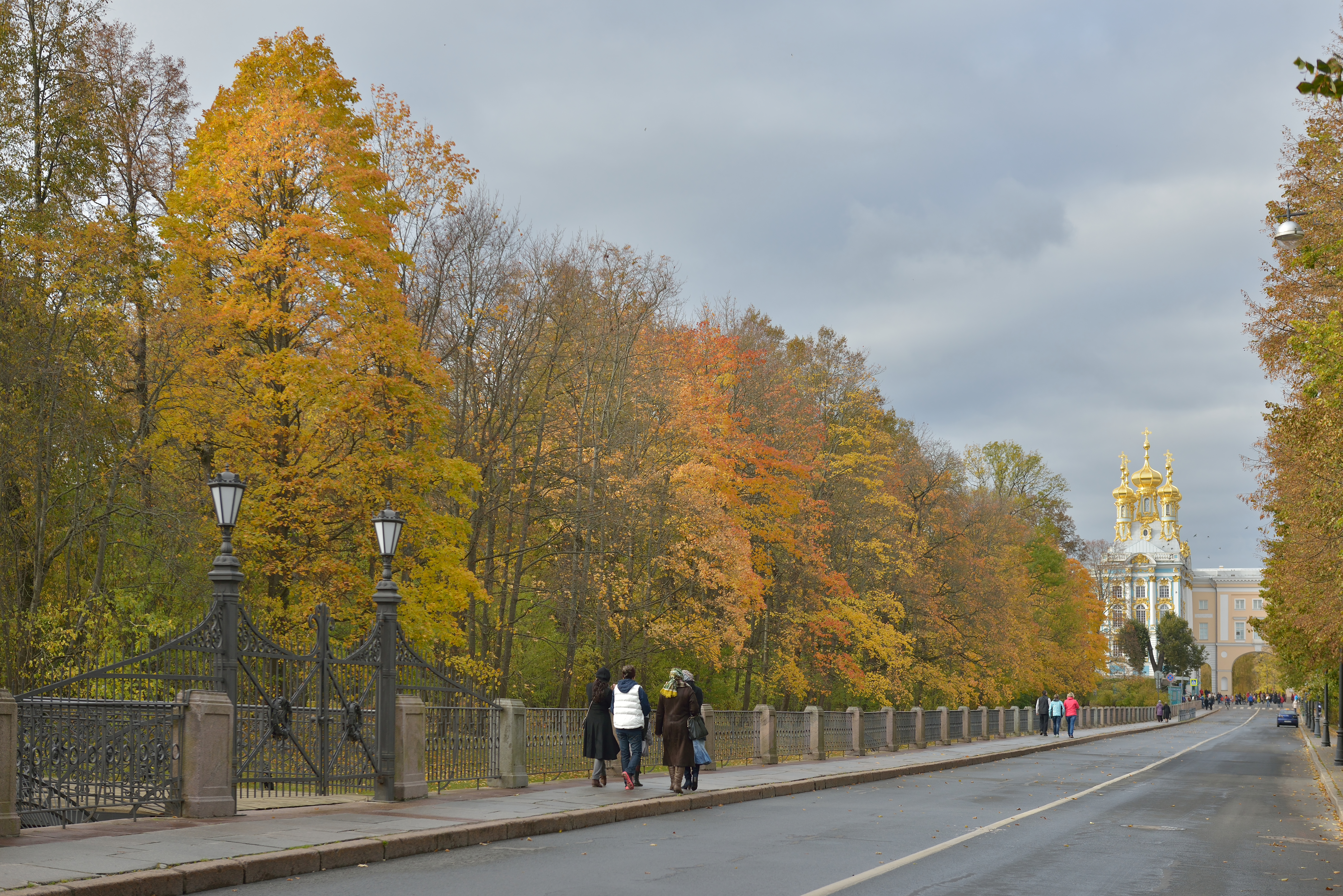 Way to the Catherine Palace in Tsarskoye Selo near Saint Petersburg.